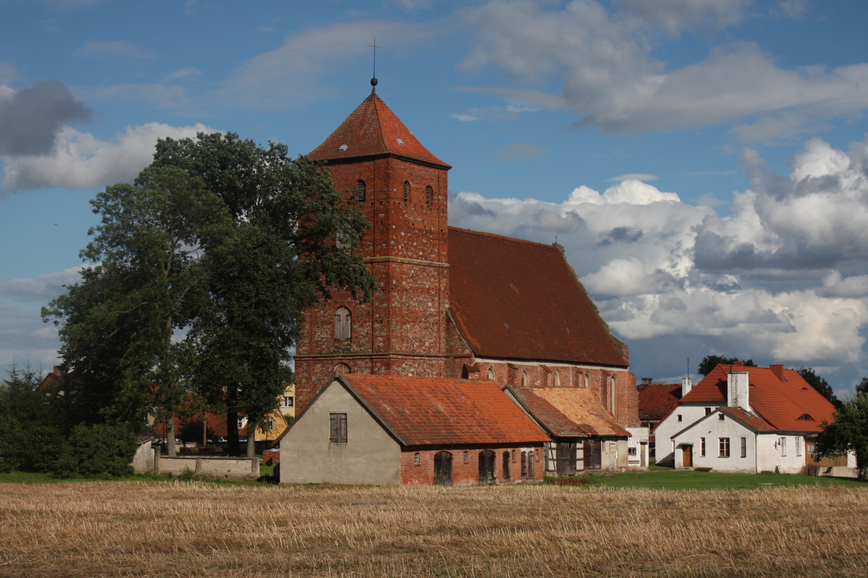 This photo of Warmian-Masurian Voivodeship was taken during Wikiexpedition 2012 set up by Wikimedia Polska Association.You can see all photographs in category Wikiekspedycja 2012. The making of this document was supported by Wikimedia Polska.